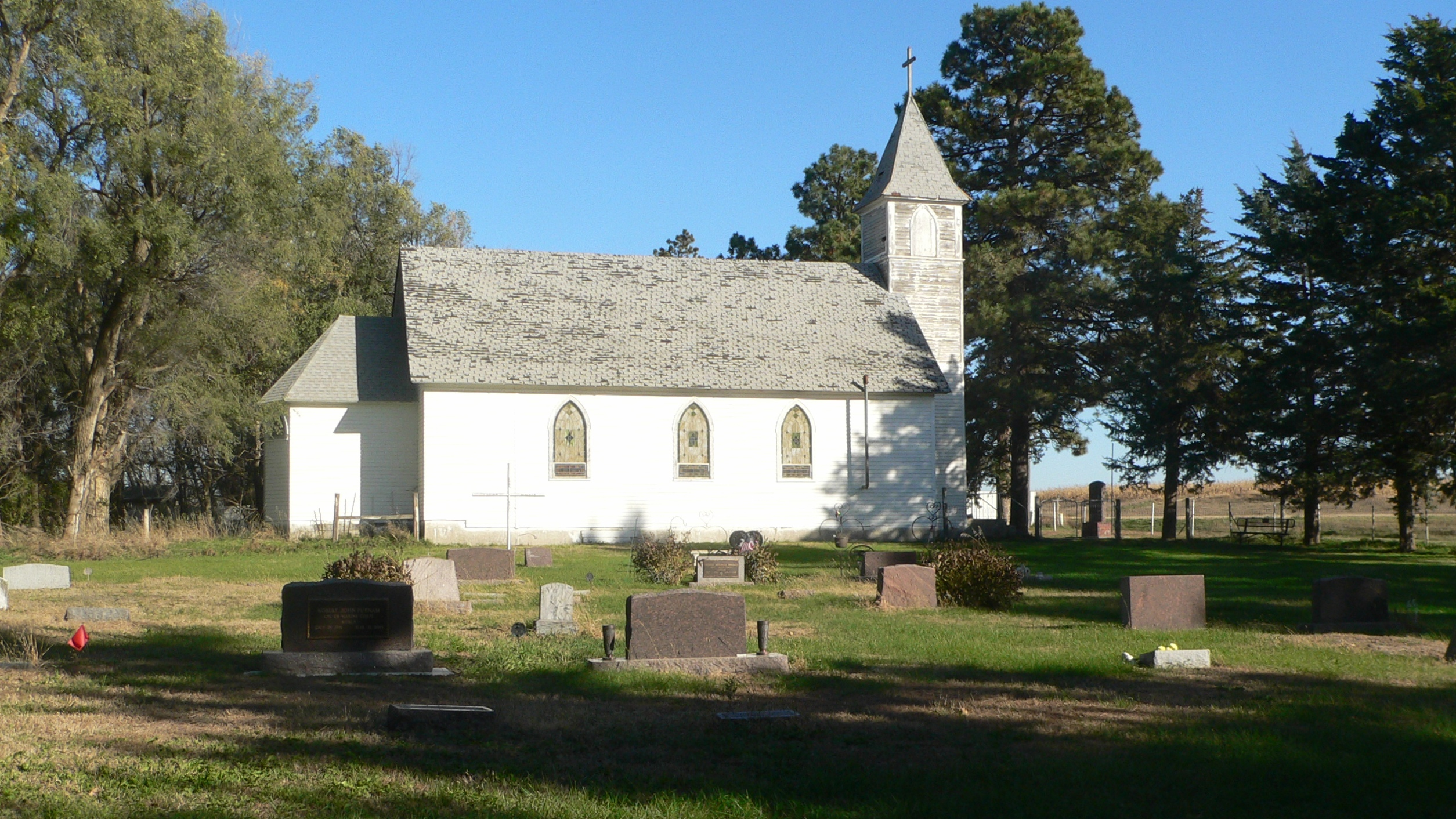 St. John's Catholic Church in Paxton, South Dakota, at northeast corner of the intersection of county roads 298 Street and 332 Avenue; seen from the west-northwest.